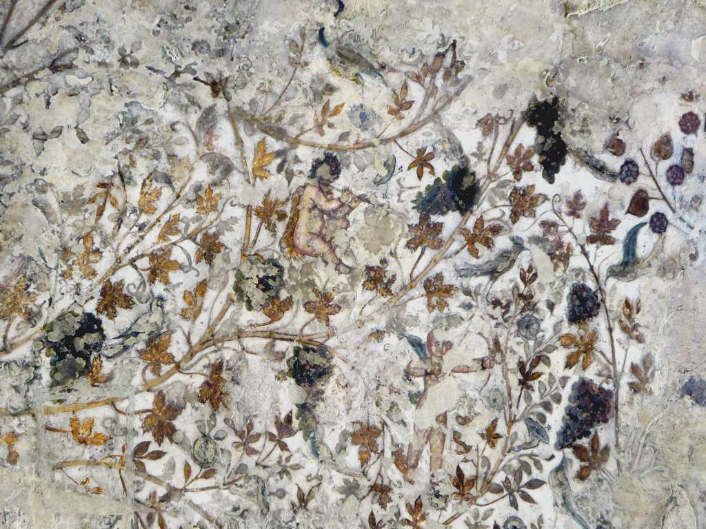 The ceiling in the 1st century AD Bayda Painted Biclinium at Little Petra, Jordan, is decorated with grape vines, flowers, birds, and cherubic figures influenced by Roman mythology.